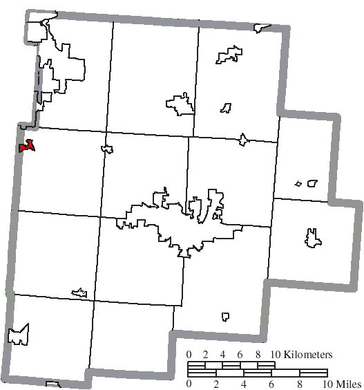 Map of the municipal and township boundaries of Fairfield County, Ohio, United States, as of the 2000 census, with the location of the village of Lithopolis highlighted. Township borders are shown only in unincorporated areas in order to differentiate incorporated and unincorporated areas more clearly.